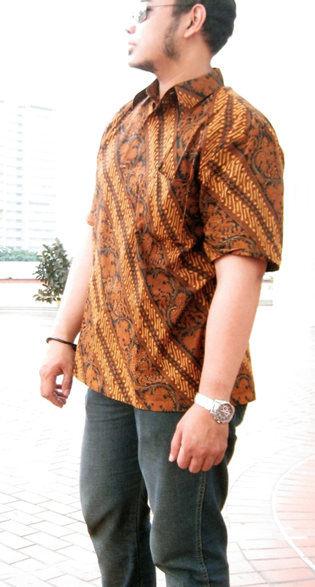 Indonesian batik men shirt Central Javanese Surakarta (Solo) style in earthy sogan (deep yellow and brown) color with lereng motif and cabut tulis technique (combination of copper-block print and hand drawn). Batik Putra Laweyan, from Laweyan distric, traditional Batik production village in Surakarta, Central Java, Indonesia.